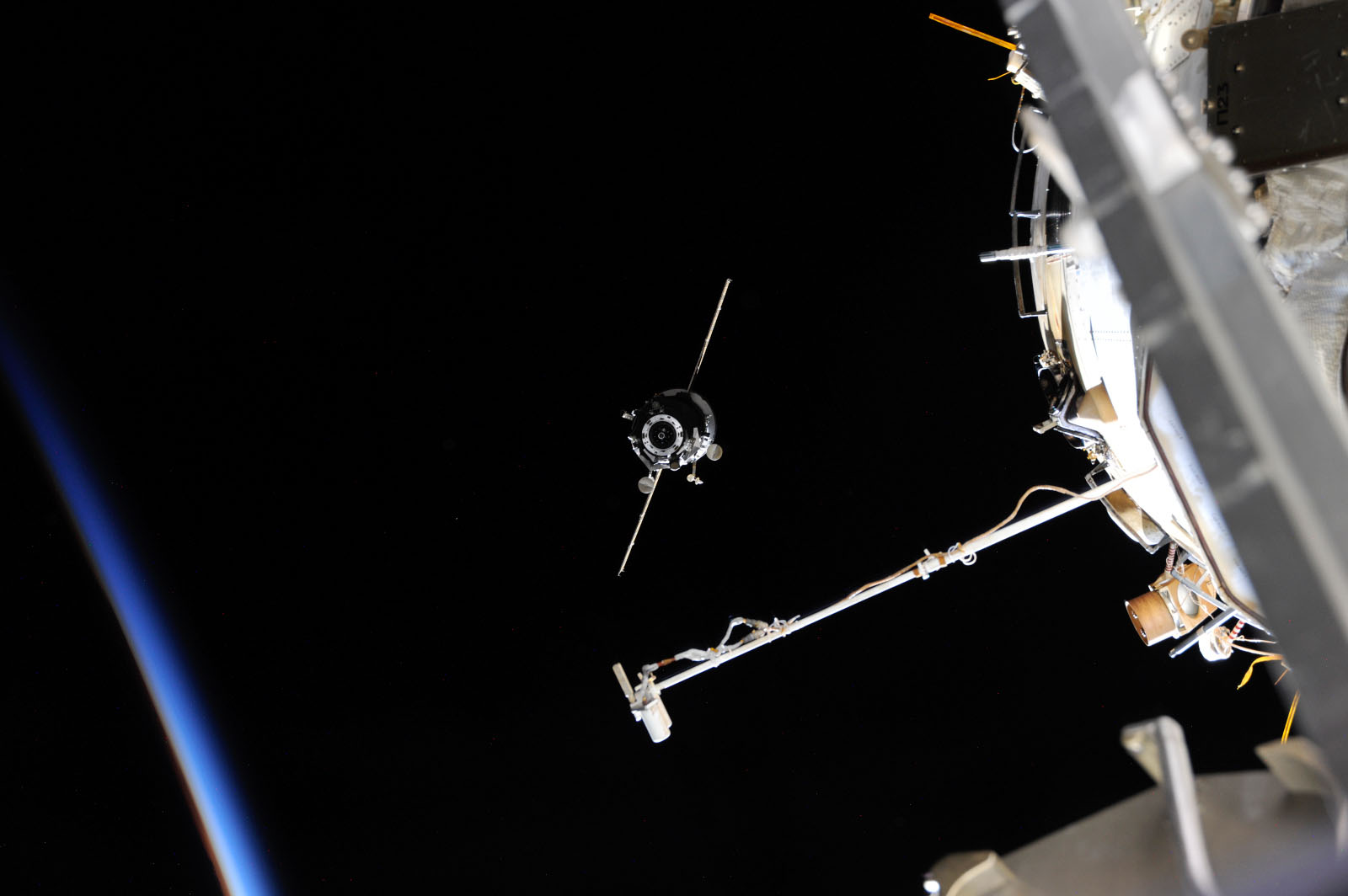 Filled with trash and discarded items, the unpiloted ISS Progress 38 supply vehicle departs from the International Space Station at 7:22 a.m. (EDT) on Aug. 31, 2010. Russian flight controllers will conduct thruster tests with the Progress to gather engineering data until it is deorbited and burned up in Earth's atmosphere over the Pacific Ocean. Its departure clears the way for the arrival of the next Russian resupply vehicle, ISS Progress 39, which will launch Sept. 8 and dock Sept. 10, delivering 2.5 tons of food, fuel and supplies for the Expedition 24 crew.